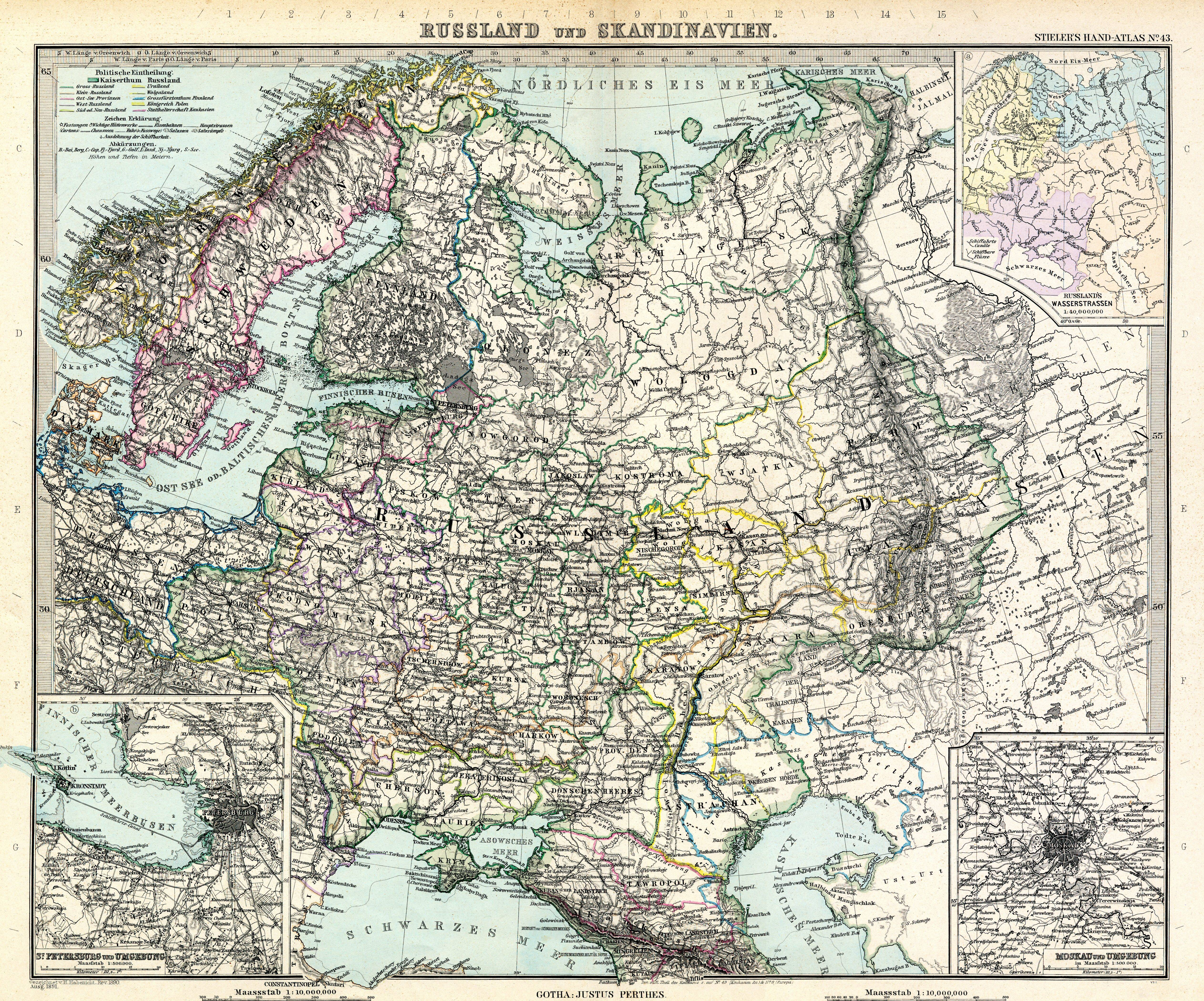 Russia and Scandinavia